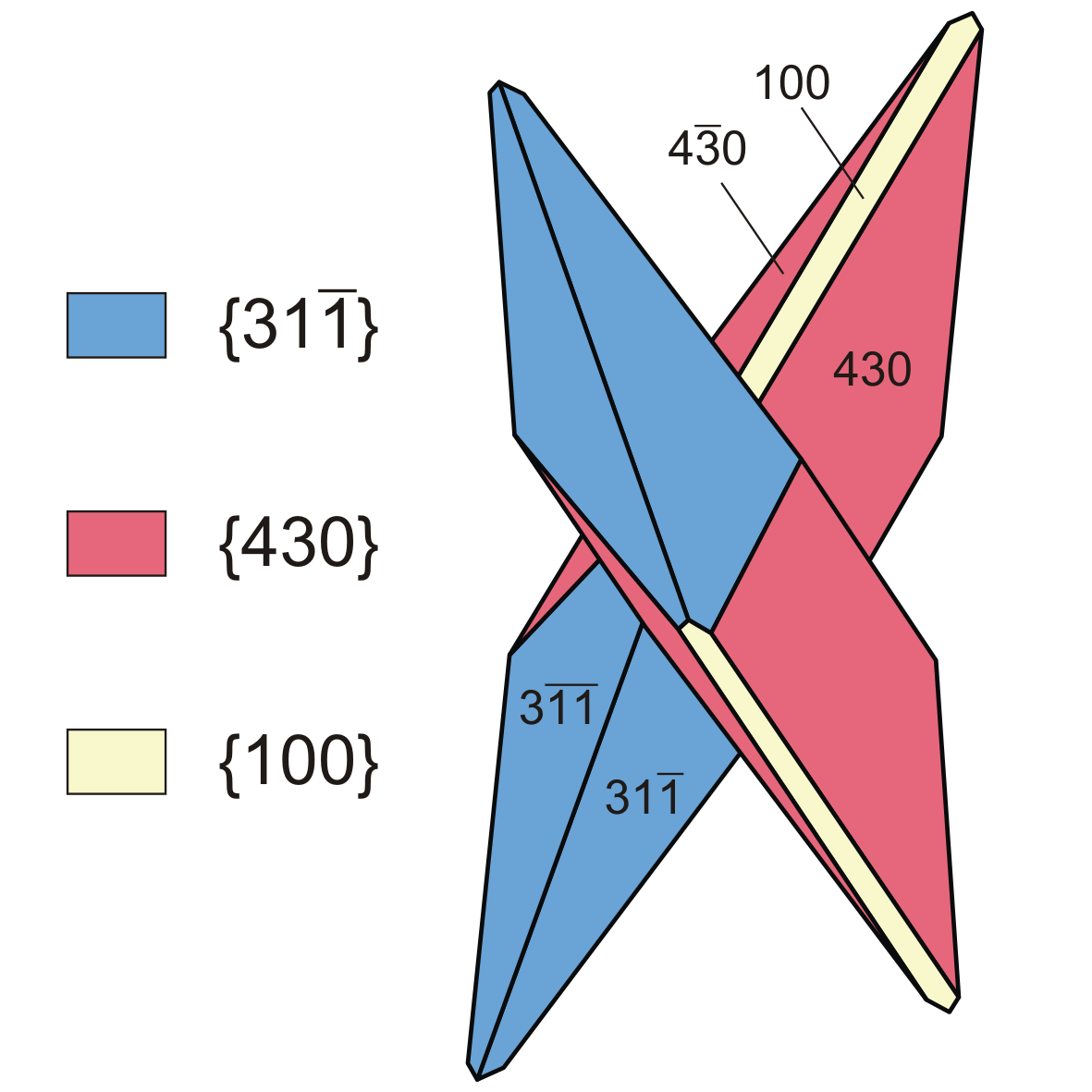 Drawing of a wilhelmkleinite twin; reference: J. Schlüter et al. (1998), Neues Jahrbuch Mineralogie, Monatshefte Vol. 1998, issue 12, p. 559